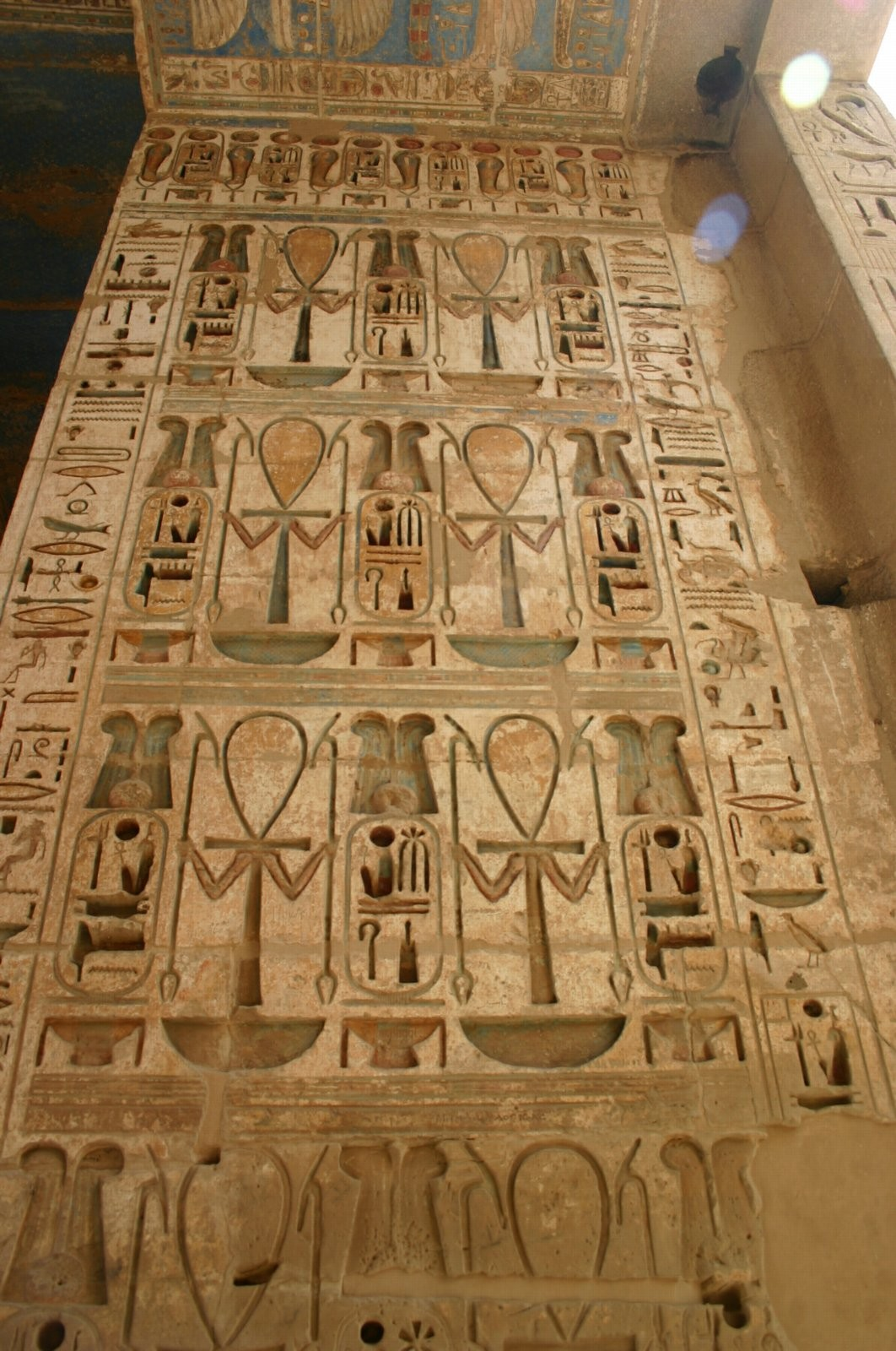 Temple of a million years of Rameses III, Luxor, Egypt. Entry way.